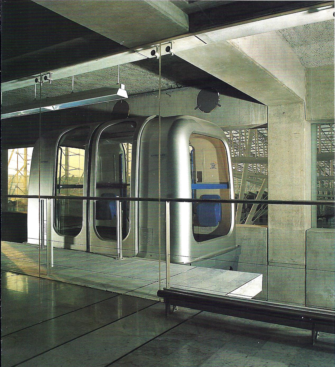 Johan Neerman